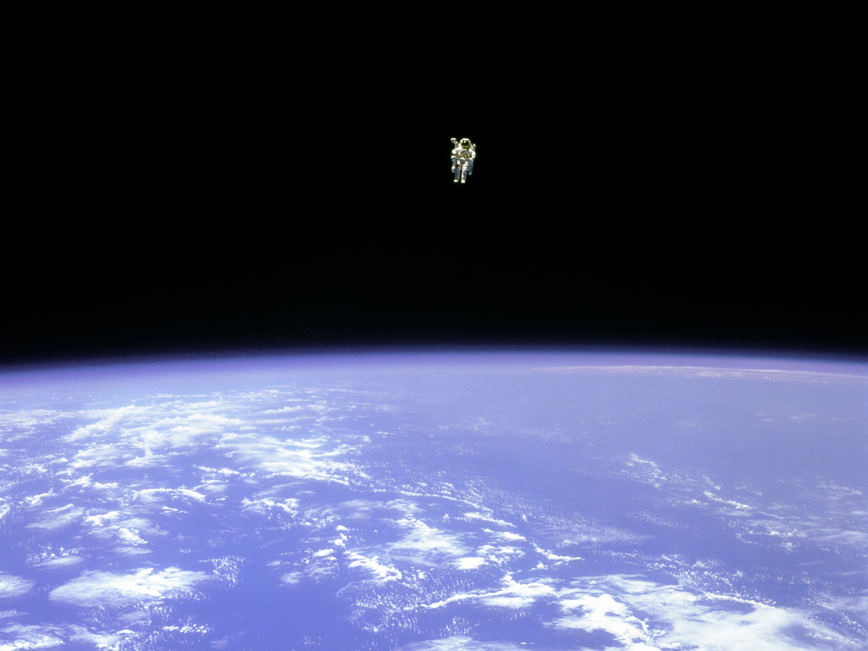 At about 100 meters from the cargo bay of the space shuttle Challenger, Bruce McCandless II was further out than anyone had ever been before. Guided by a Manned Maneuvering Unit (MMU), astronaut McCandless, pictured above, was floating free in space. McCandless and fellow NASA astronaut Robert Stewart were the first to experience such an "untethered space walk" during Space Shuttle mission 41-B in 1984. The MMU works by shooting jets of nitrogen and has since been used to help deploy and retrieve satellites. With a mass over 140 kilograms, an MMU is heavy on Earth, but, like everything, is weightless when drifting in orbit. The MMU was replaced with the SAFER backpack propulsion unit.